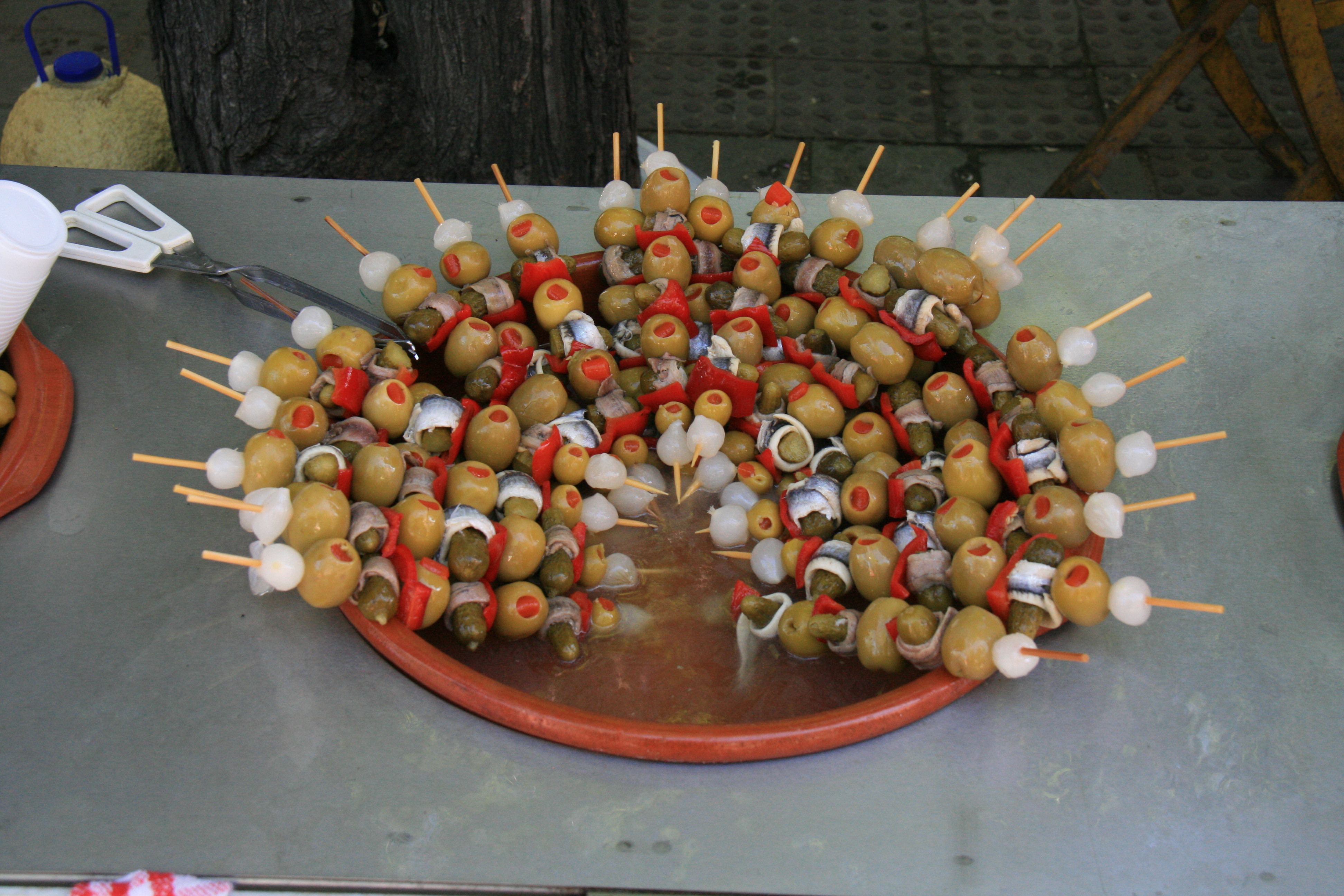 Pickled food of Spain - Banderillas